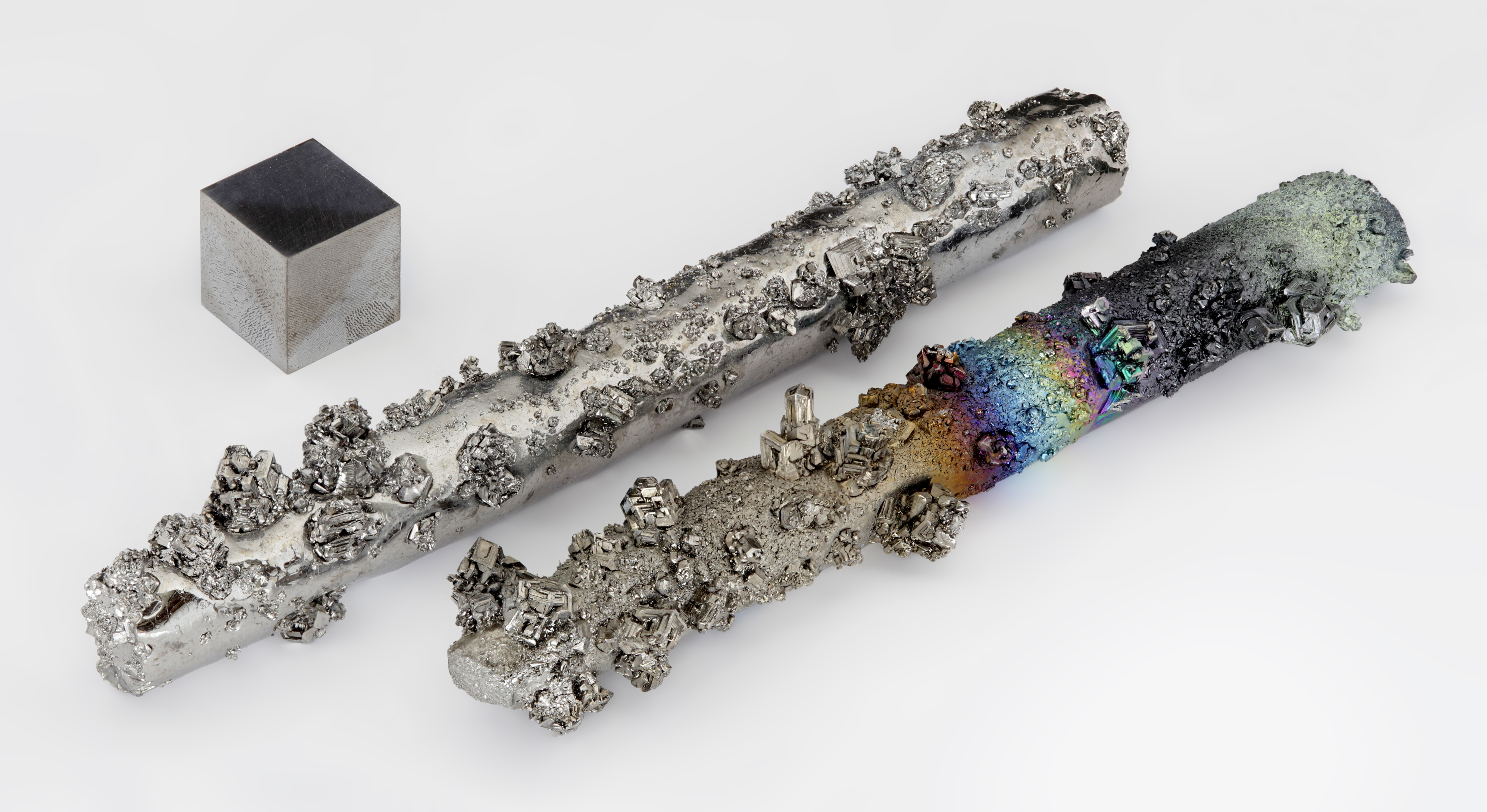 Tungsten rods with evaporated crystals, partially oxidized with colorful tarnish. Purity 99.98 %, as well as a high pure (99.999 % = 5N) 1 cm3 tungsten cube for comparison.